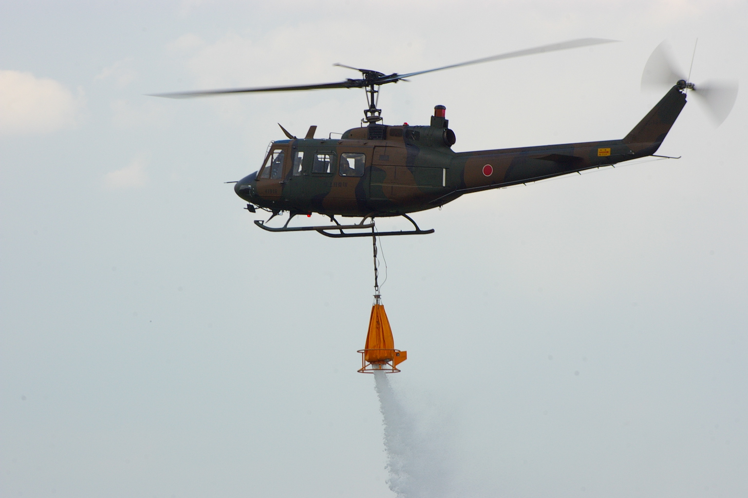 The aerial-firefighting demonstration by JGSDF UH-1J.